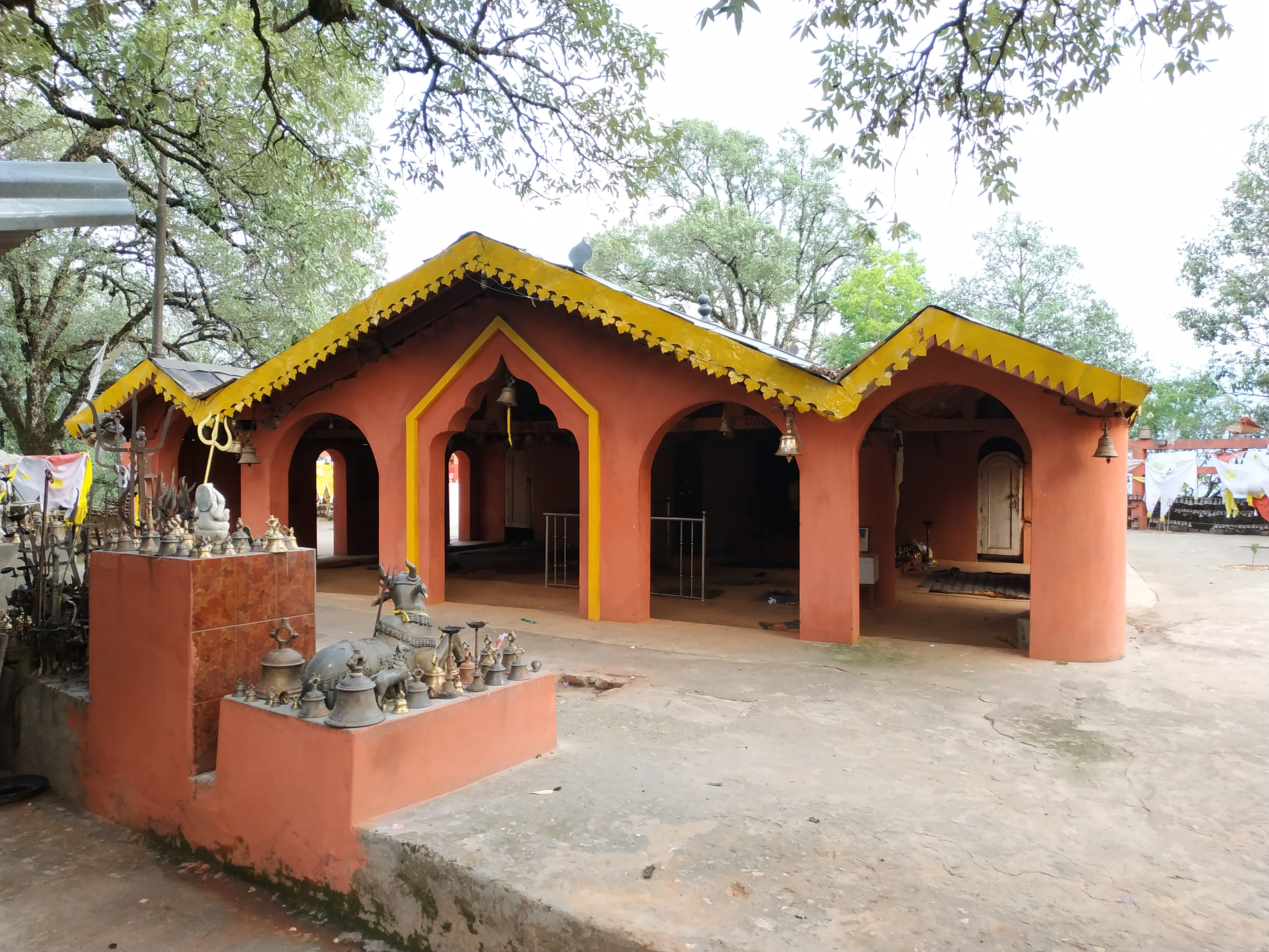 Jagannath temple, Baitadi, Nepal